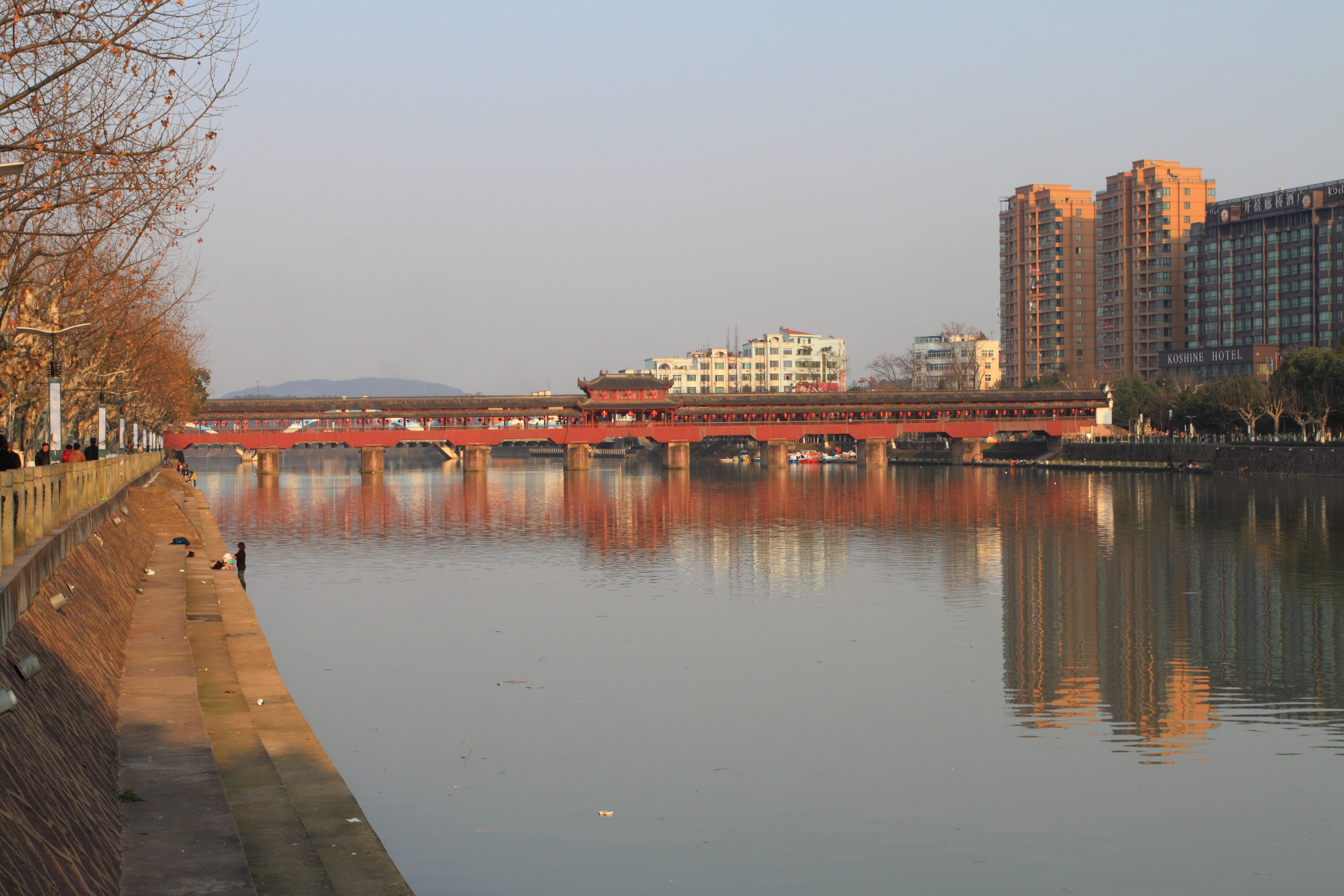 Shuxi Bridge, in Wuyi, Zhejiang, China.